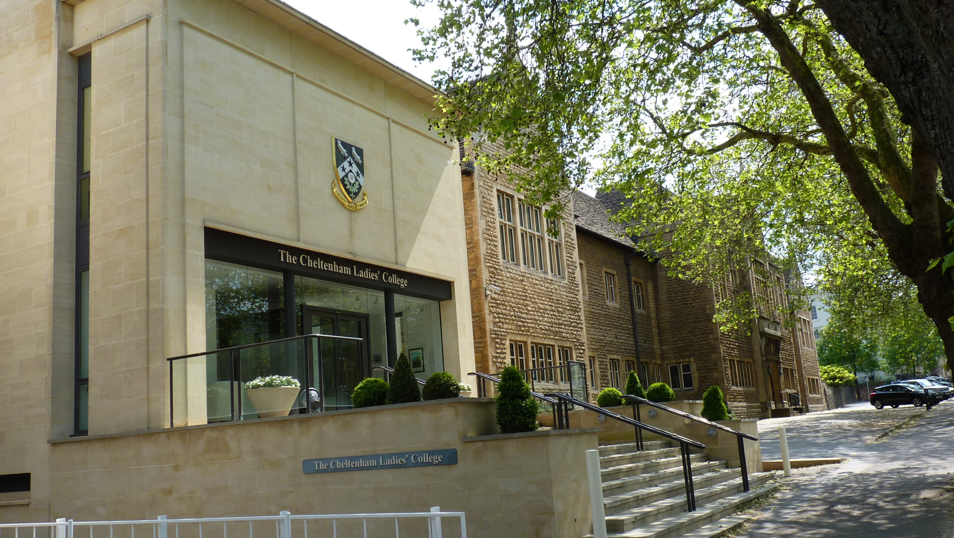 The Cheltenham Ladies College, Gloucestershire